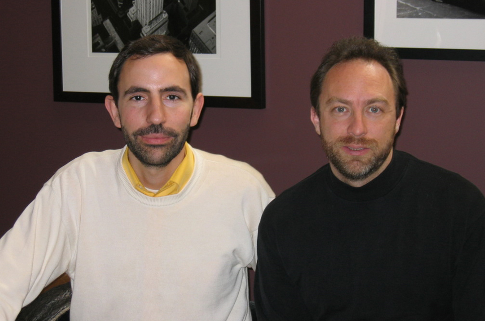 during his personal interview to record his voice